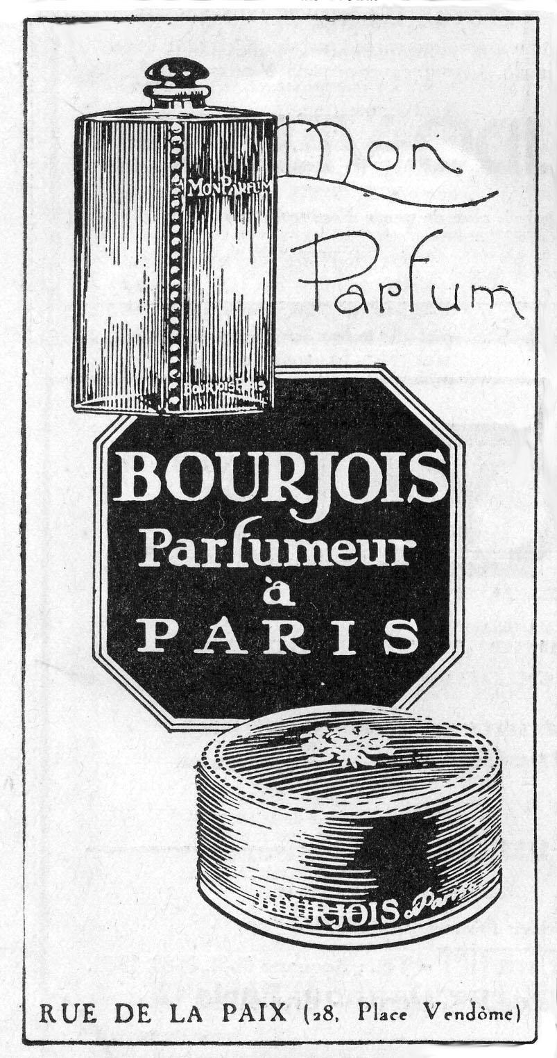 Bourjois perfume advertisement of 1923